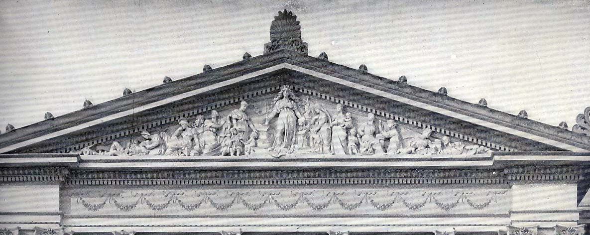 Pediment on the Women's Building, Columbian Expo. Chicago, Il, USA, 1893